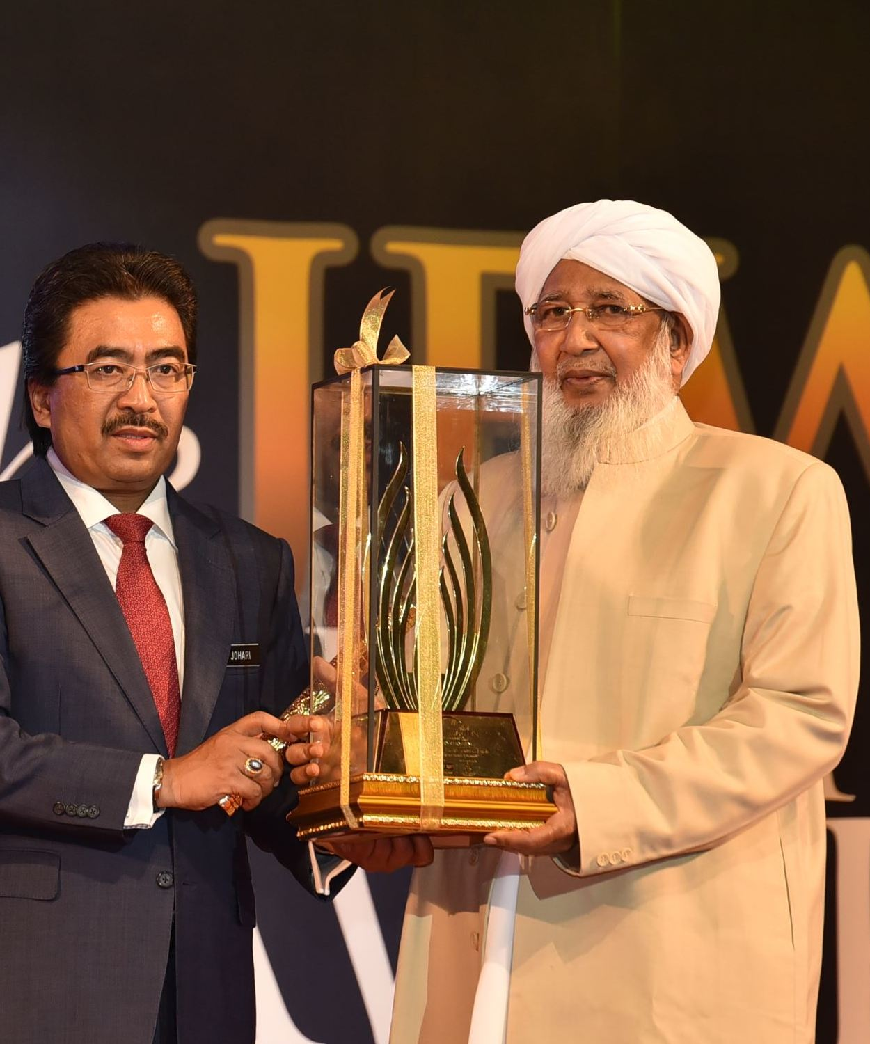 Sheikh Abubakr receiving an Award by OIC Today from Malaysian Finance Minister